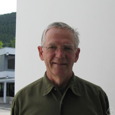 Photo of Craig Tracy